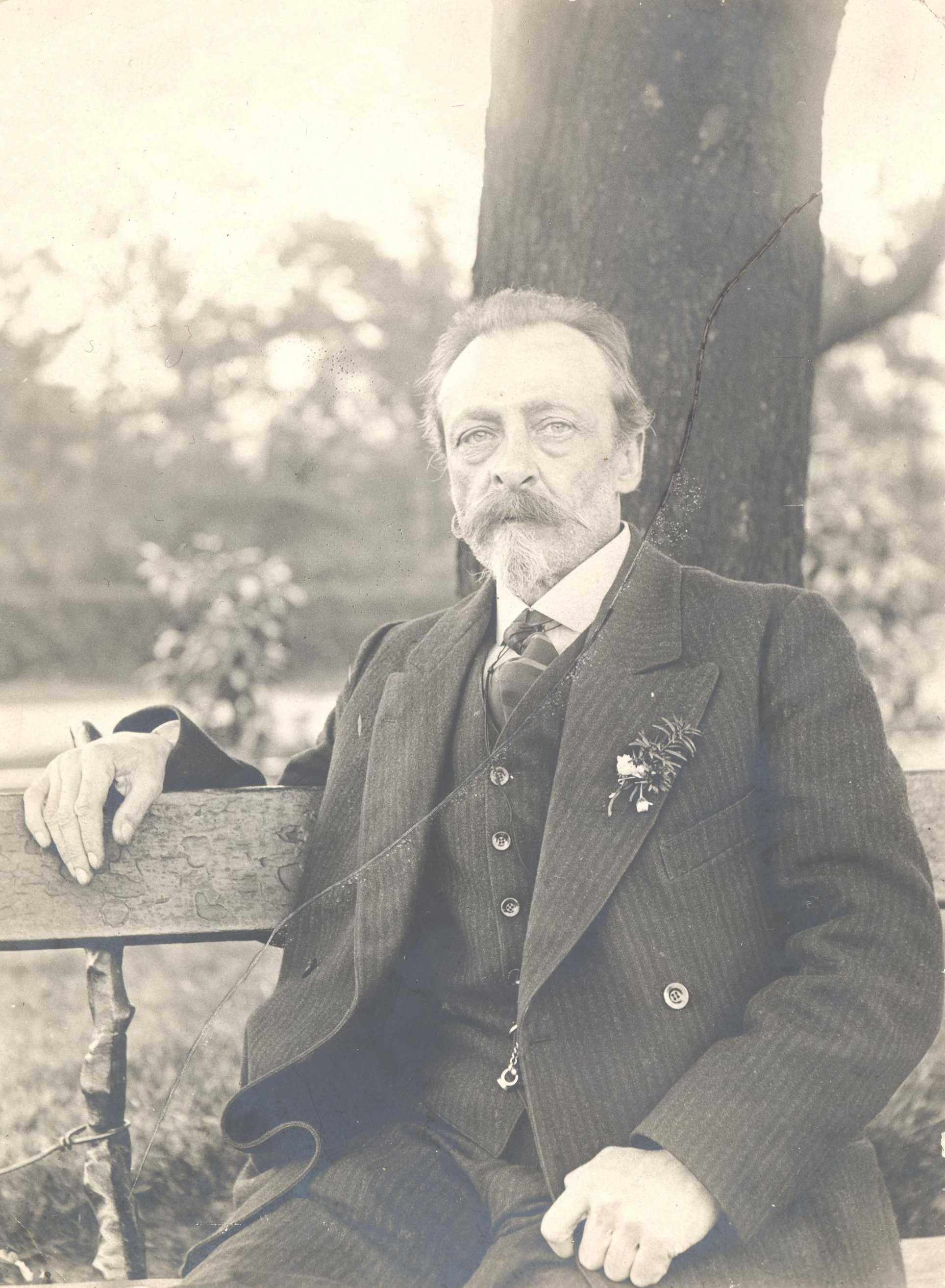 Nikolay Sergeevich Tyutchev. 1910. Italy